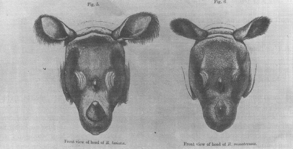 The difference between Rhinoceros lasiotis (with ear fingers) and R. sumatrensis figured by Sclater in 1876.